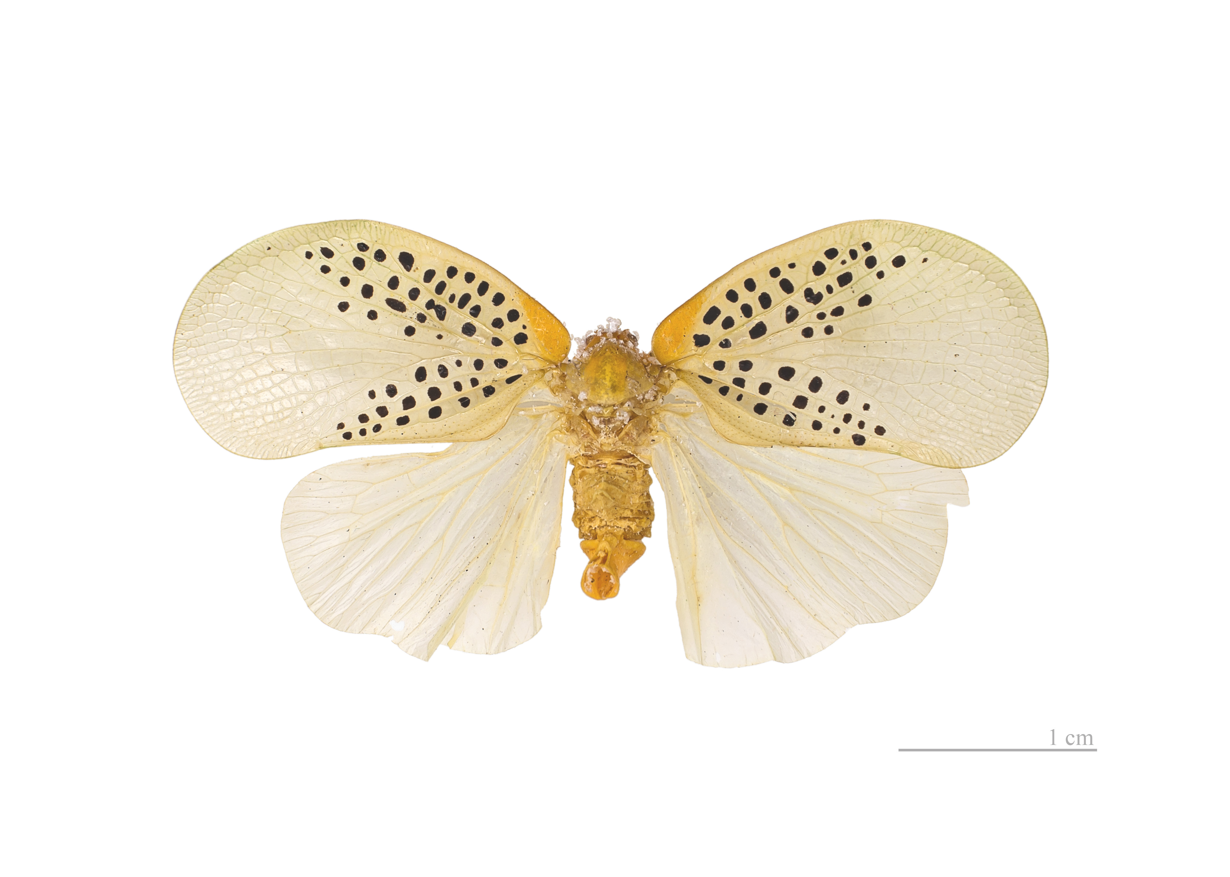 ♂ - Dorsal side Locality: French Guiana, France.